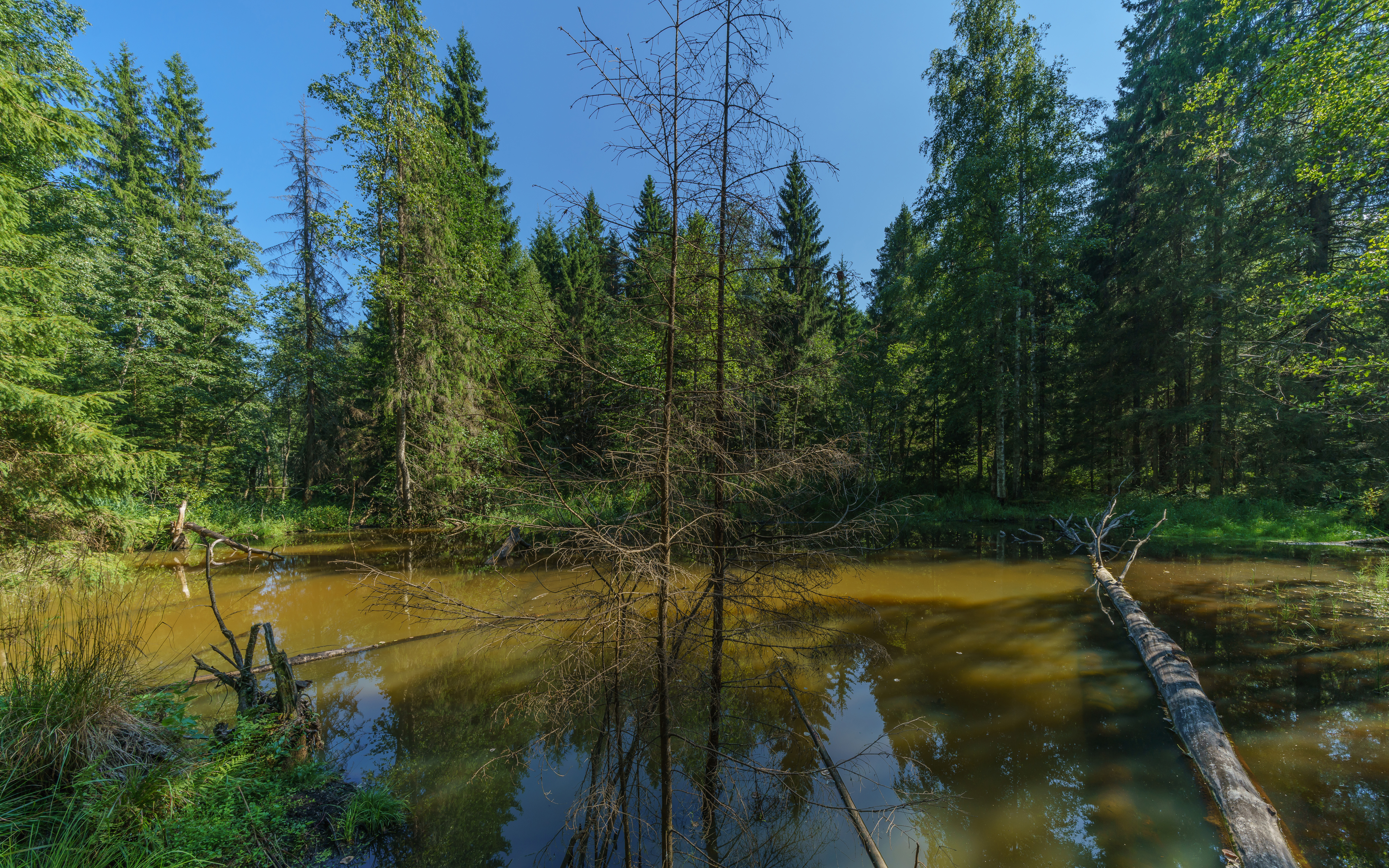 Forest in Valdai National Park, Novgorod Oblast, Russia